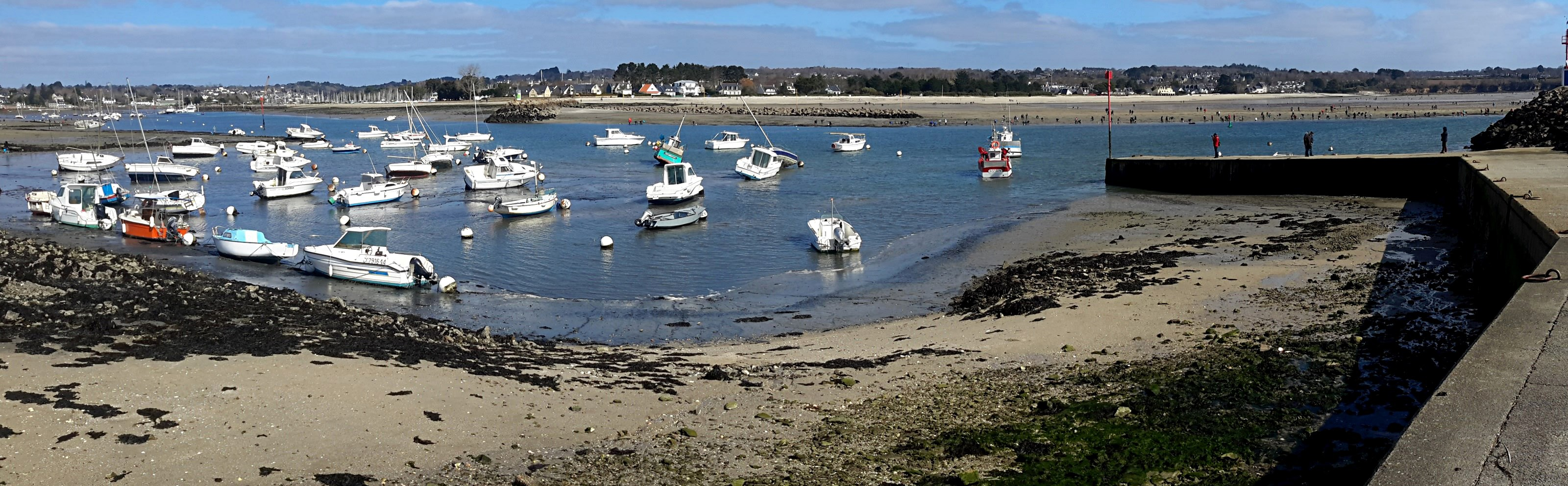 Port of Cap Coz, Fouesnant, Finistère, France.